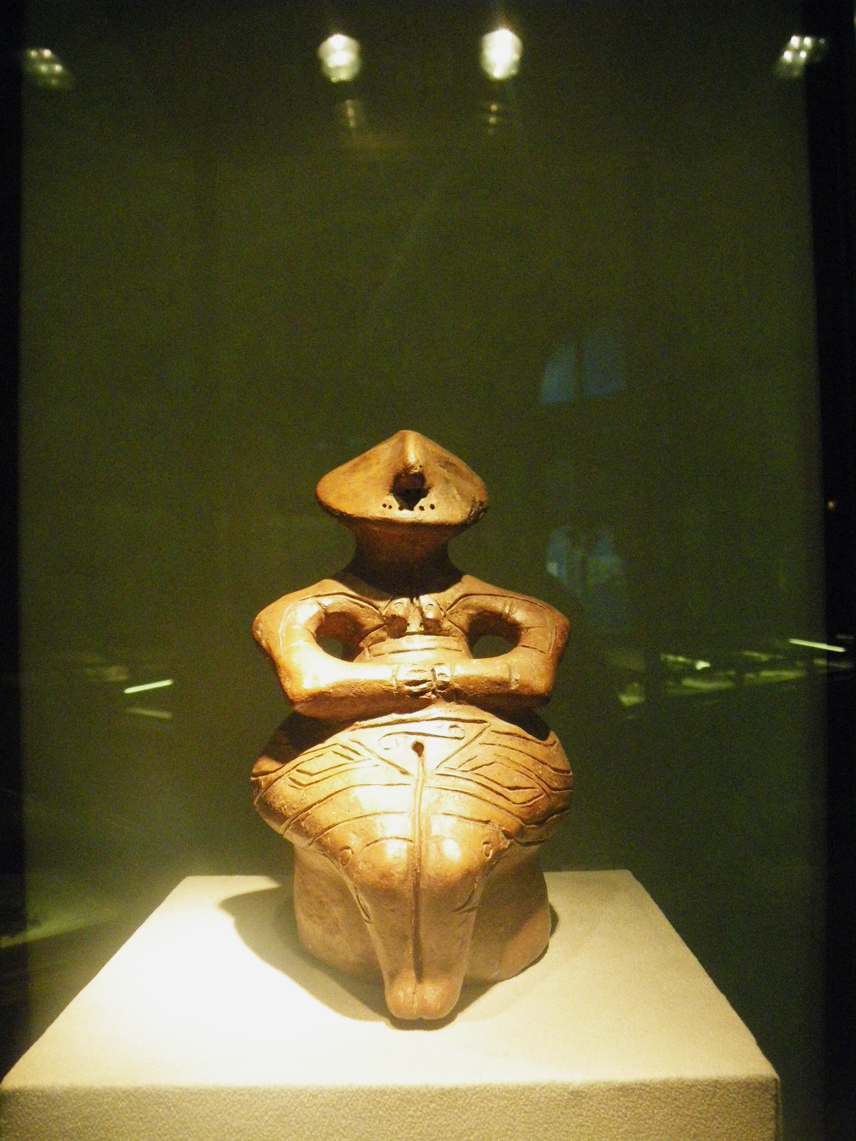 Lady of Pazardzik enthroned pregnant Goddess found in Bulgaria dated 4,500 BCE exposed in Vienna National History Museum; Gumelniţa culture